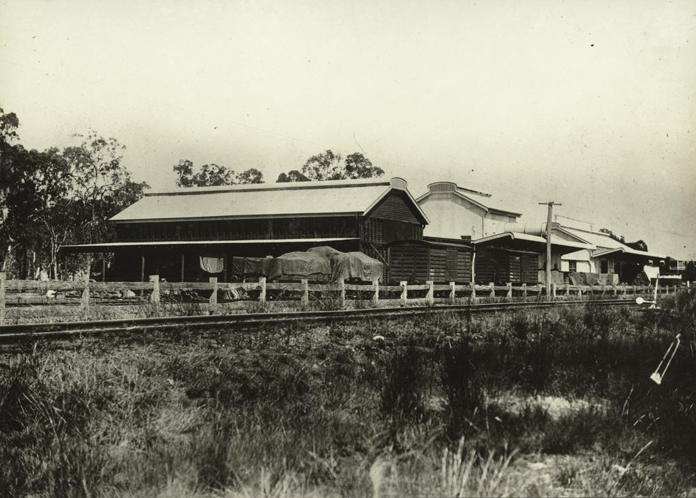 Ginnery at Whinstanes, Brisbane